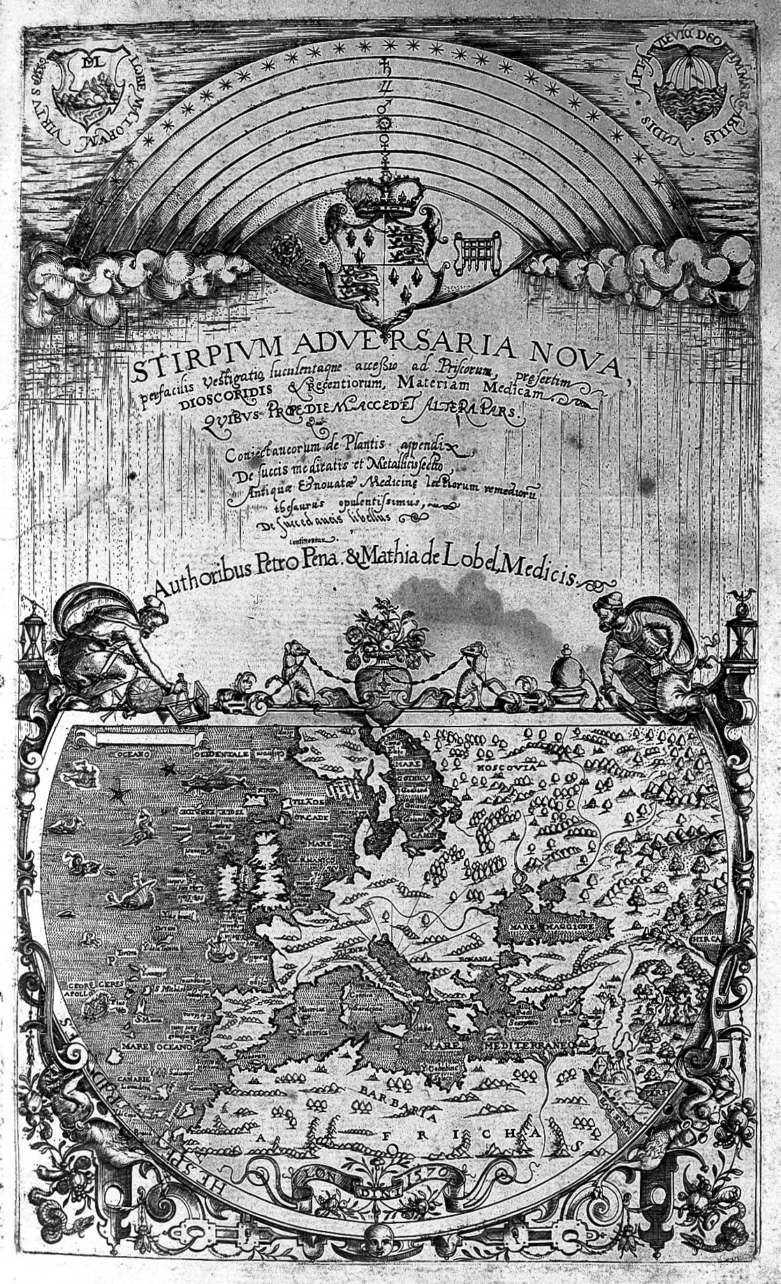 Title page. Rare Books Keywords: Matthias de Lobel